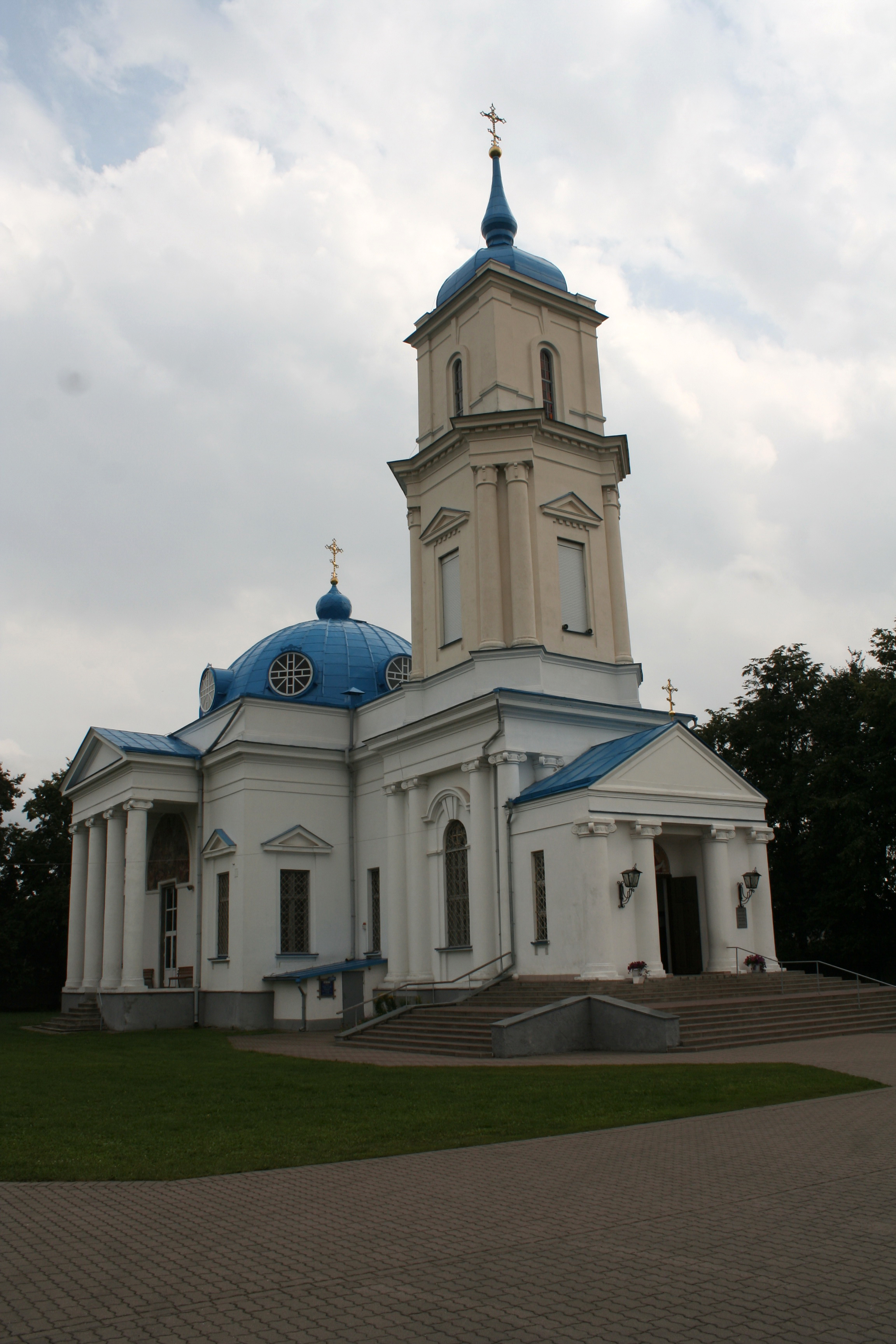 Orthodox church of the Protection of the Holy Virgin, Baranavičy This is a photo of Belarusian heritage monument. Reference number: 112Г000041 ( WLM)